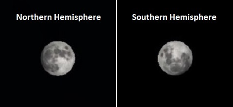 Left - modeled appearance of moon in Berlin (52°N, 13°E). Right - same for location in Southern Ocean (52°S, 13°E). In both cases the moon is shown approximately 30 minutes after local moonrise on 24 December 2015. Images created with Stellarium, a free software planetarium.